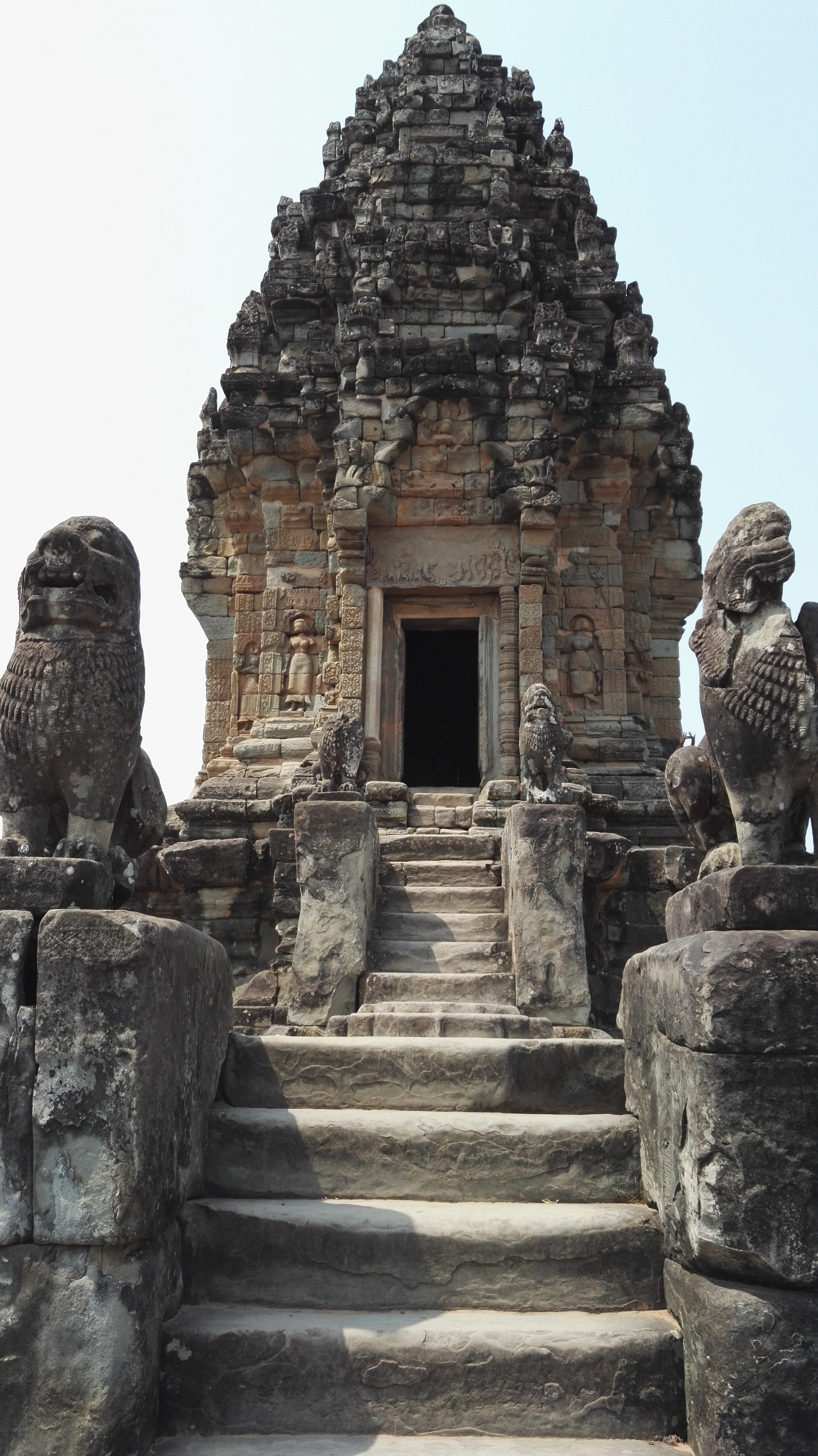 The Highest Place of Bakong